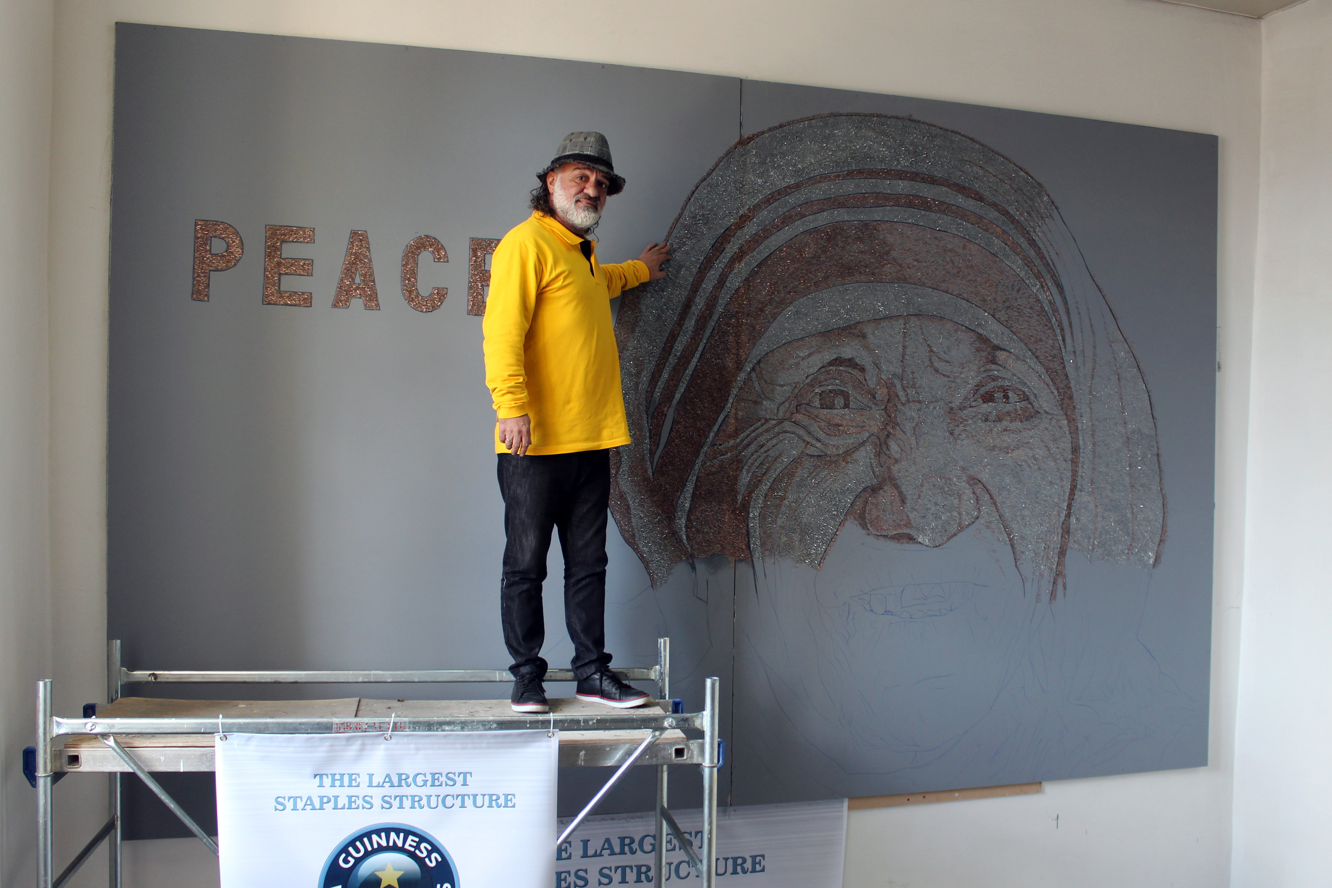 New Guinness World Record Attempt (10th) "The Largest Staples Structure" Subject : Saint " Mother Theresa " Material : Staples